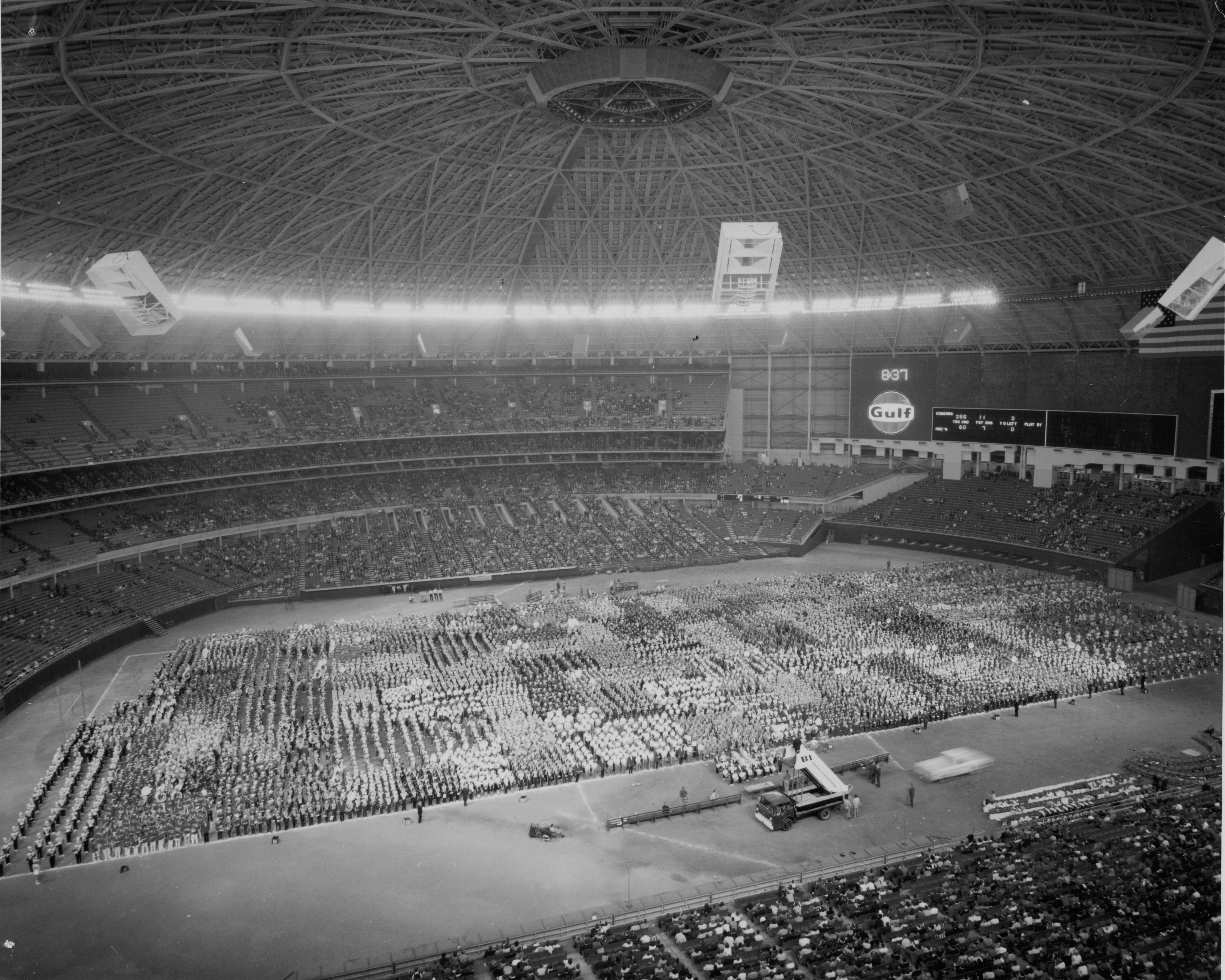 A photograph of many bands playing at the Astrodome.